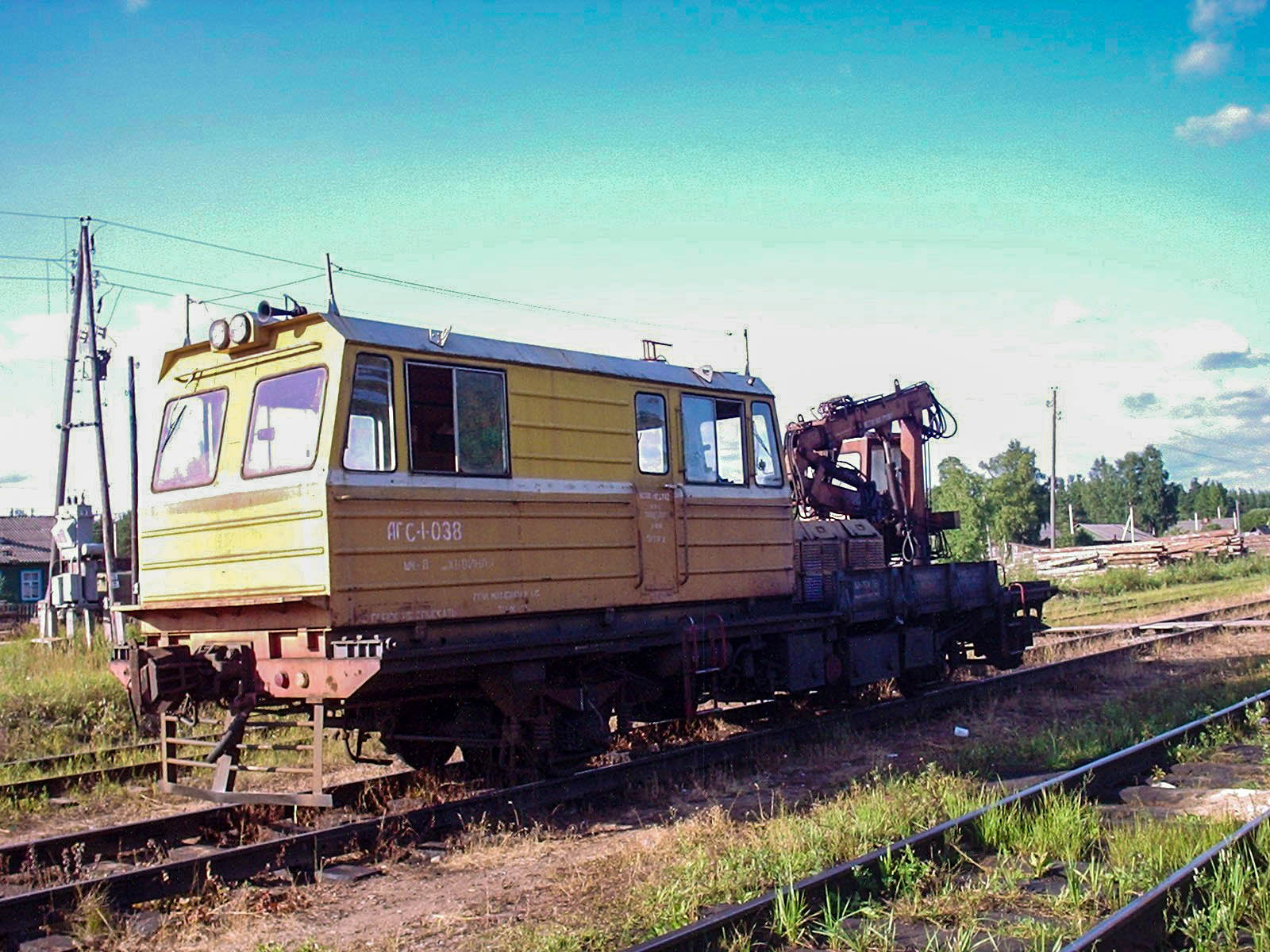 Diesel rail vehicle AGS-038 at Kabozha station